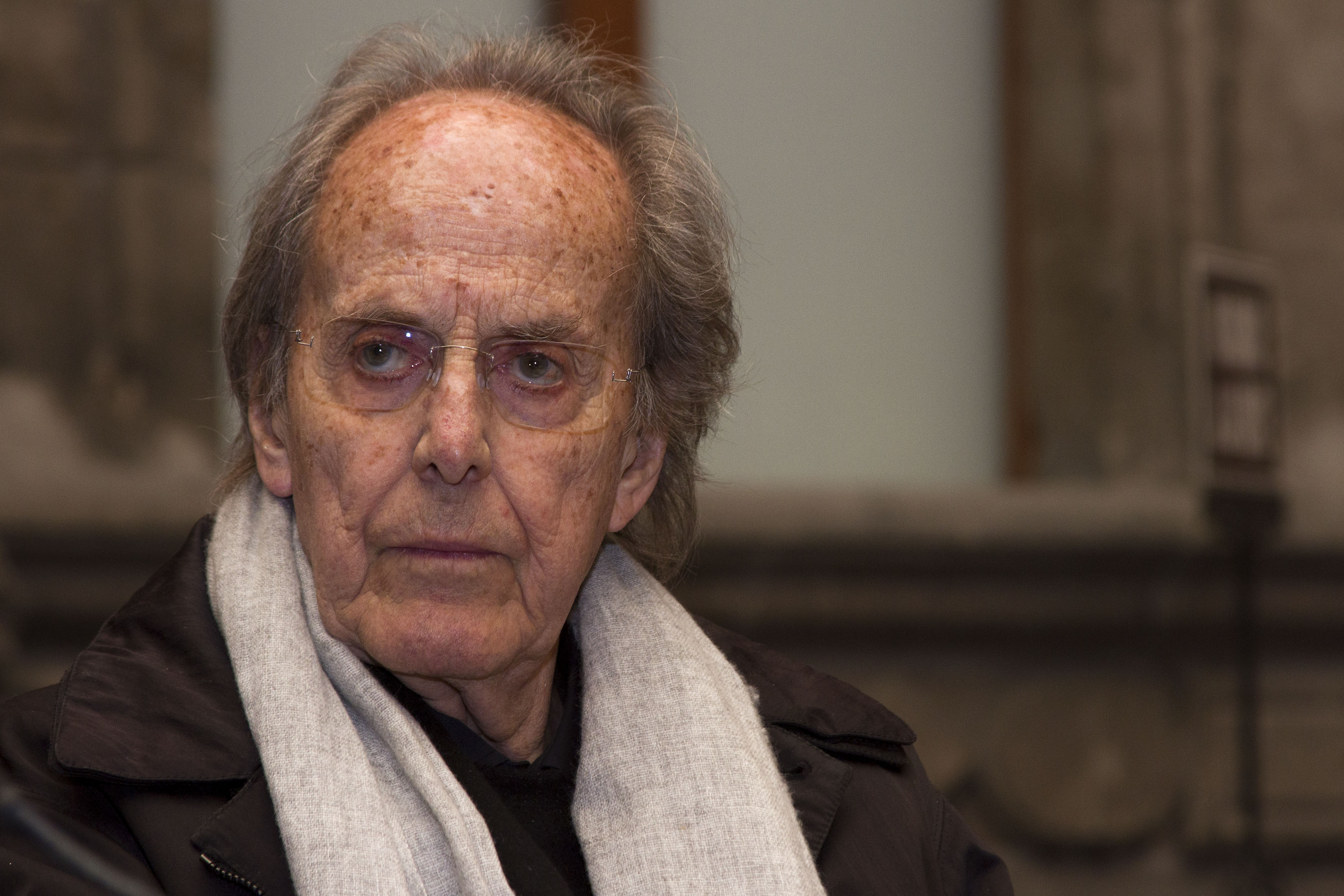 Teodoro Gonzalez de Leon at the announcement of his upcoming show. Thursday, 3 March, 2016. Picture by Tania Victoria/Secretaria de Cultura CDMX.